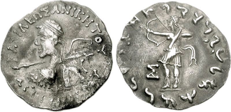 Artemidoros holding spear